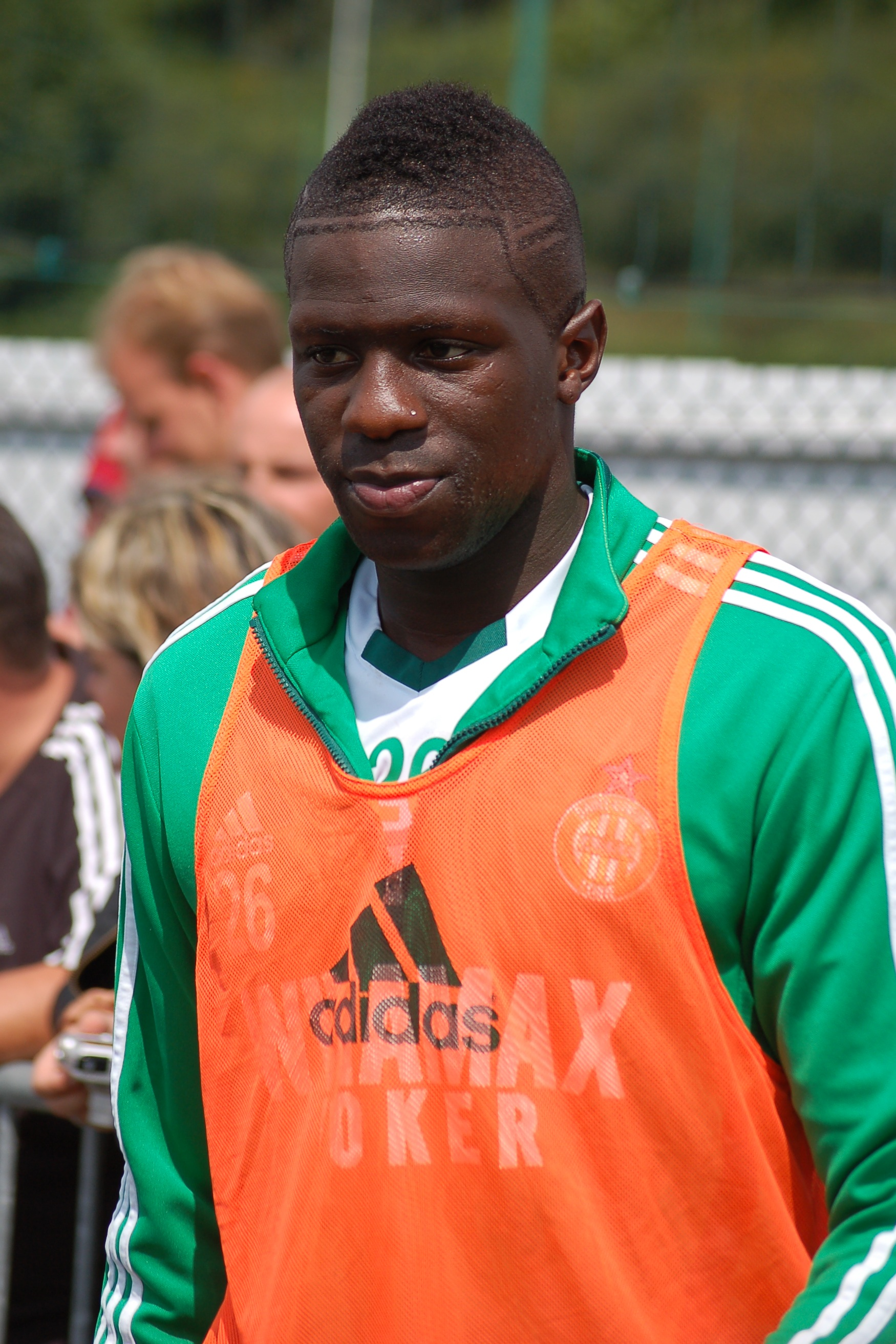 Football player Bakary Sako training with AS Saint-Etienne, on August 3rd, 2011 (L'Etrat, France).